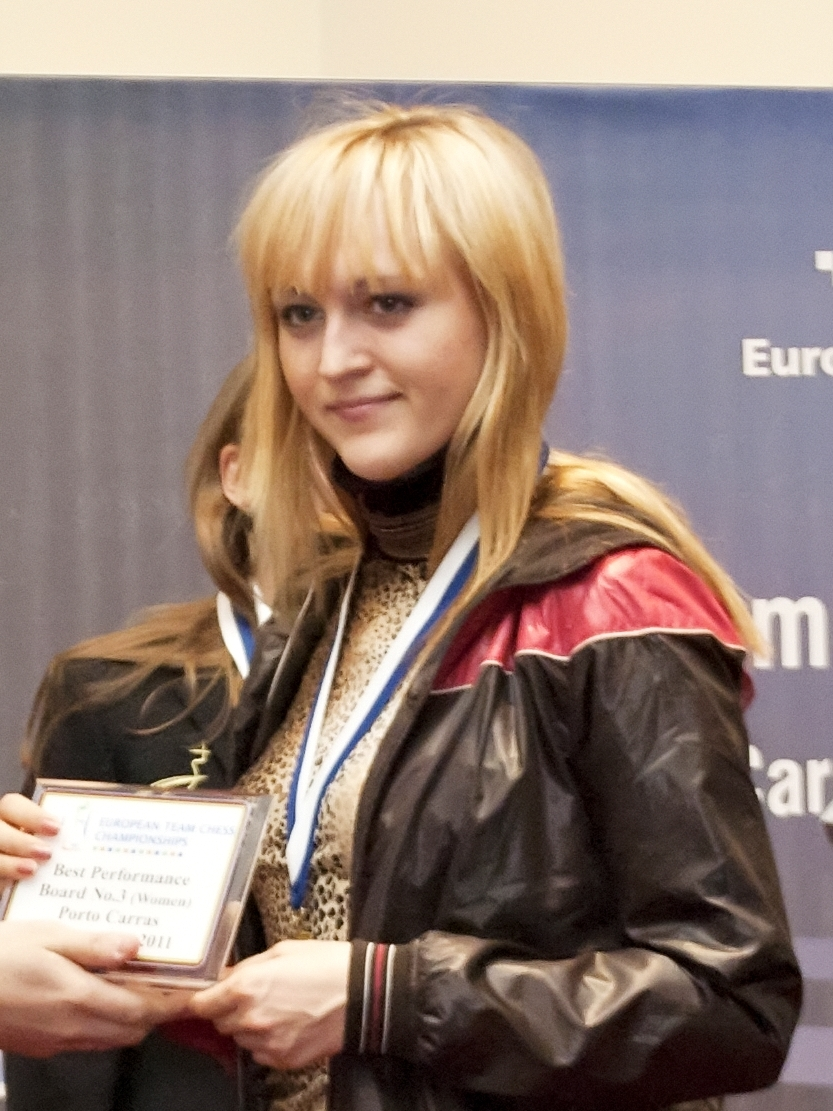 Anna Ushenina takes her golden medal for the 3rd board.